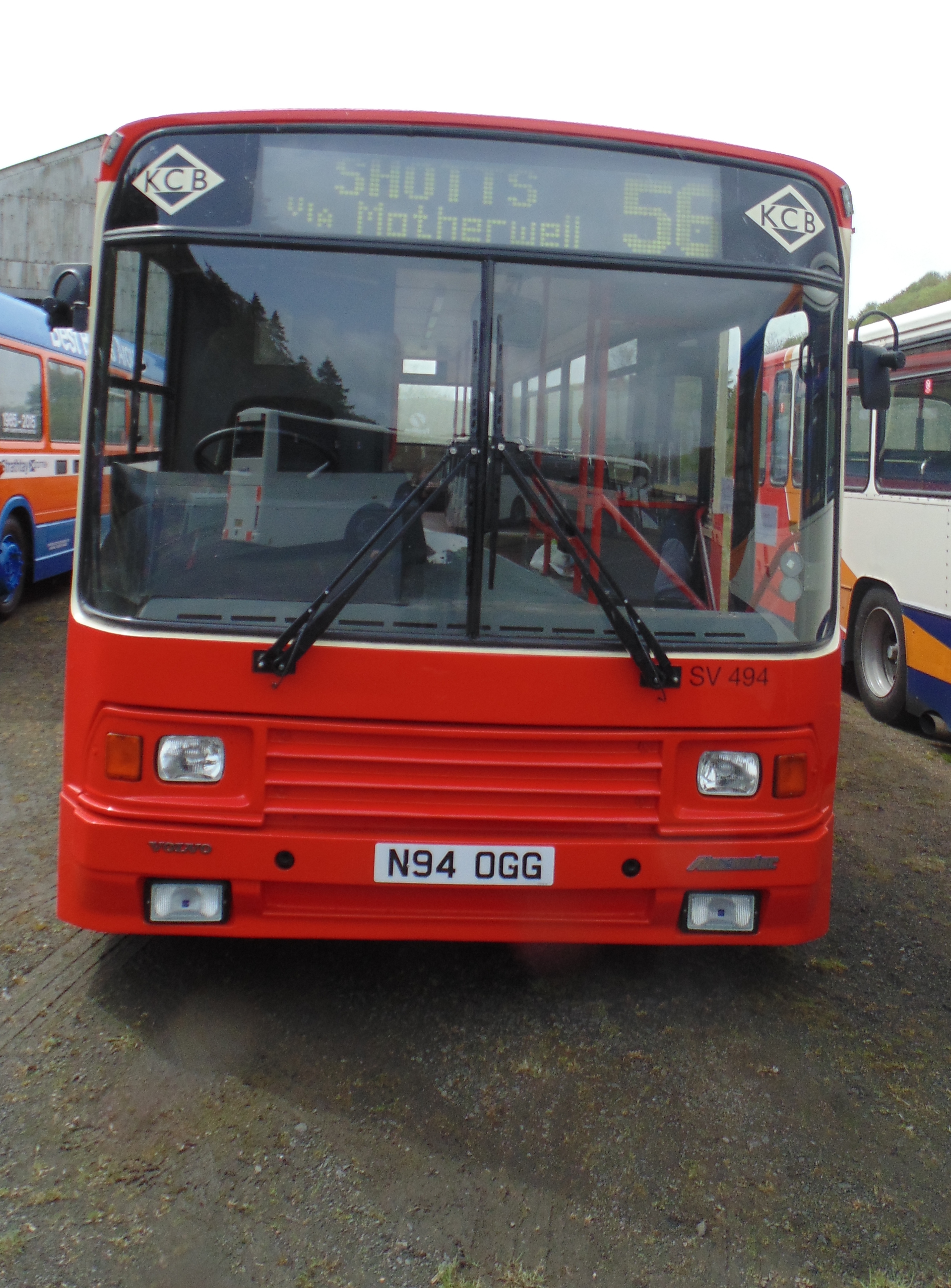 Ex first Glasgow